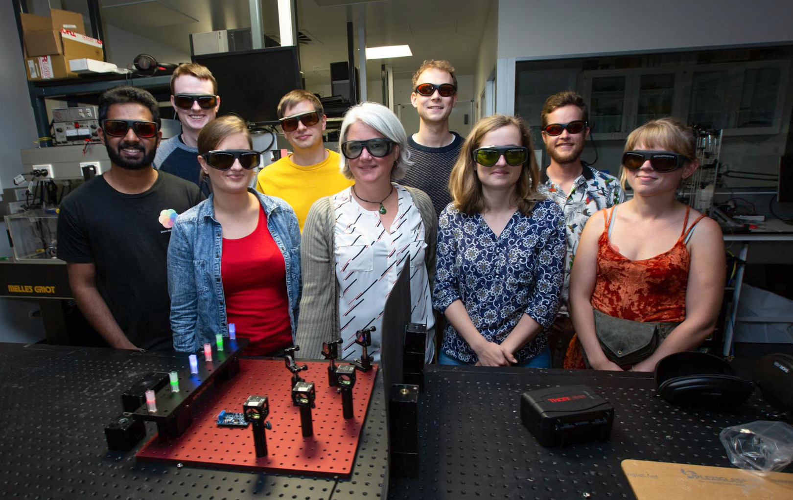 Dodd-Walls Centre Principal Investigator Frederique Vanholsbeeck and students in their lab at the University of Auckland